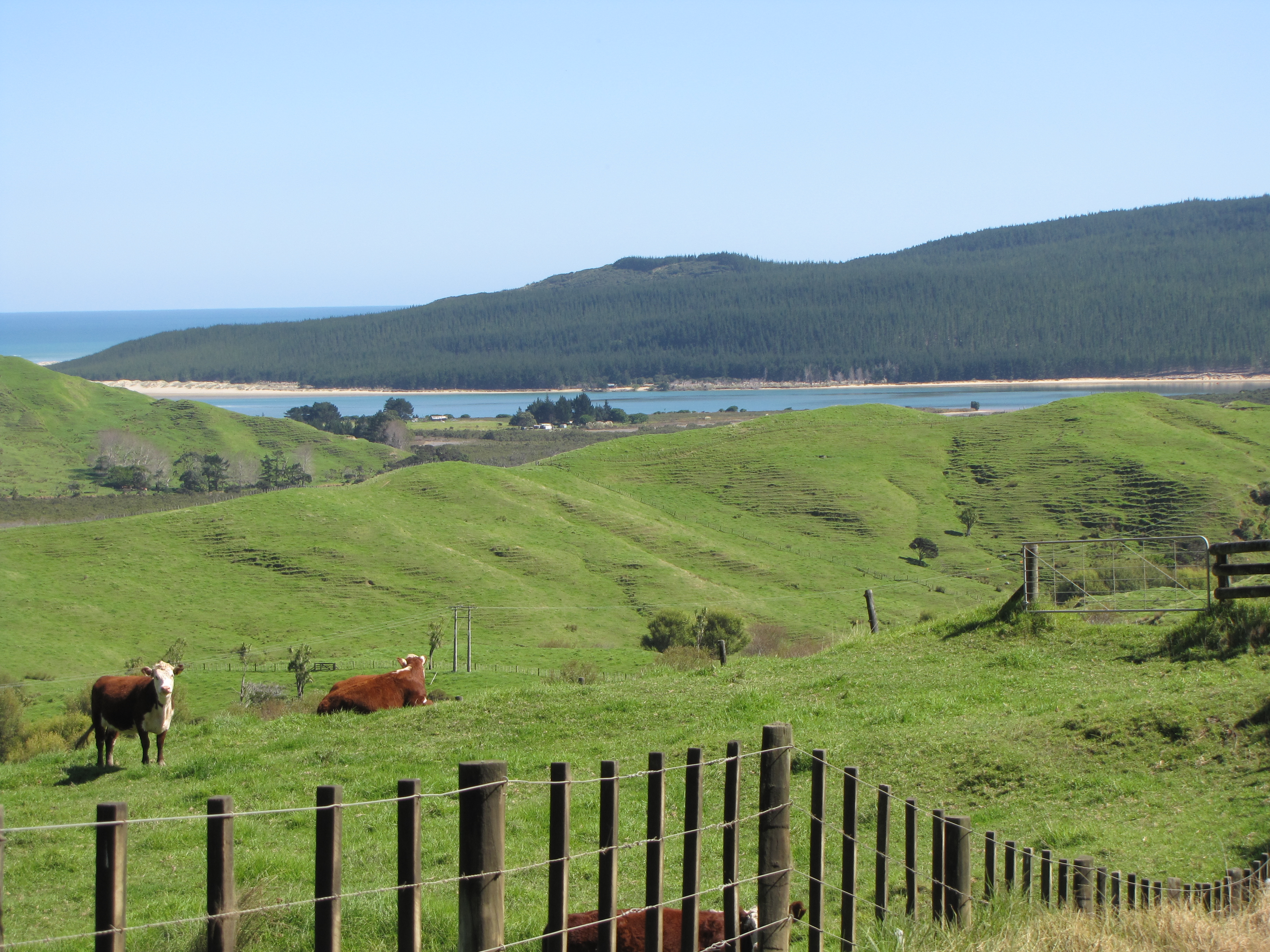 Herekino is a community in the Far North of New Zealand